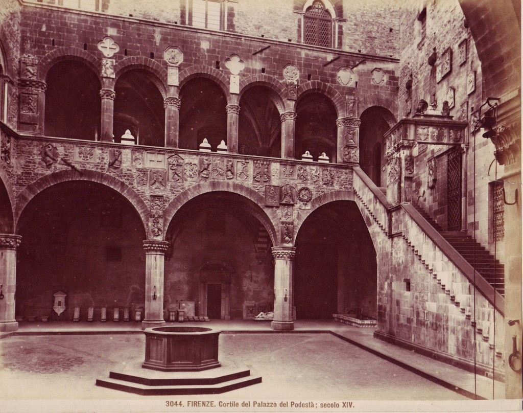 Giacomo Brogi (1822-1881), "Florence - Courtyard of the palazzo del Podestà, 14th century". Catalogue # 3044. 1870s. Today.